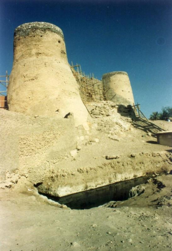 Tarout castle under reconstructions